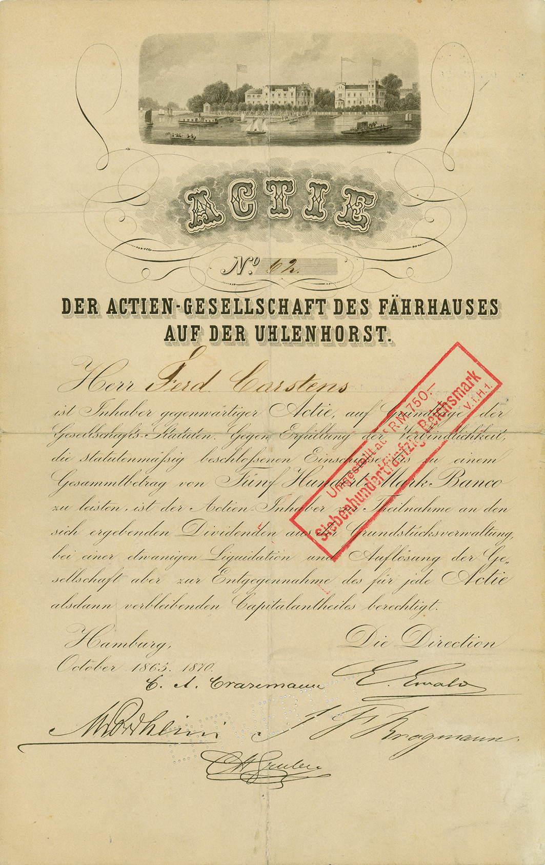 Share of the AG des Fährhauses auf der Uhlenhorst, issued October 1870